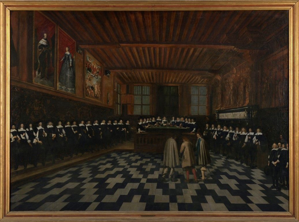 Meeting of Council of the Brugse Vrije at the Manor of the Brugse Vrije in Bruges (Gilles van Tillborch, early 17th c.)